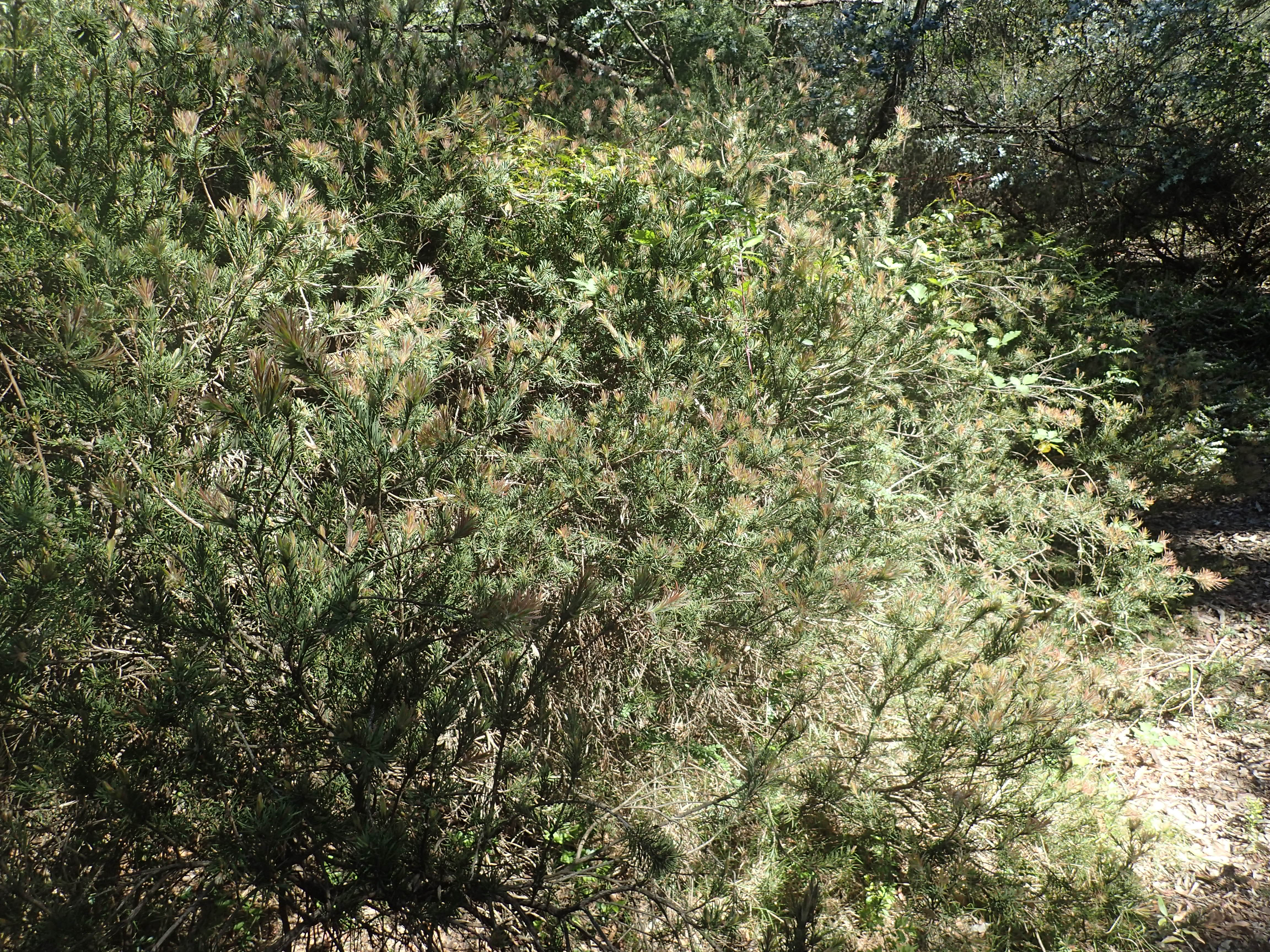 Melaleuca subulata habit in the ANBG